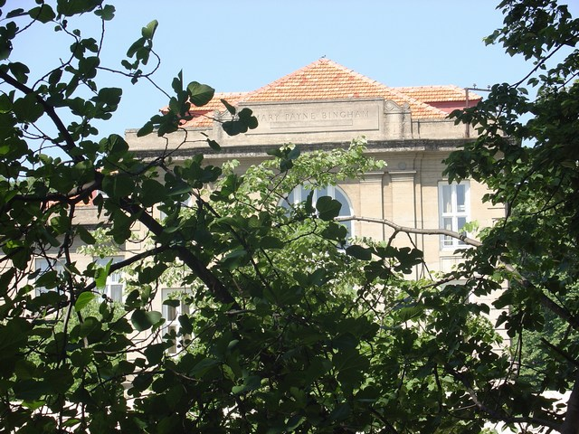 Bingham Hall, Robert College of Istanbul, Turkey